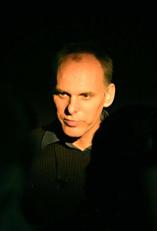 Bill Spinhoven van Oosten